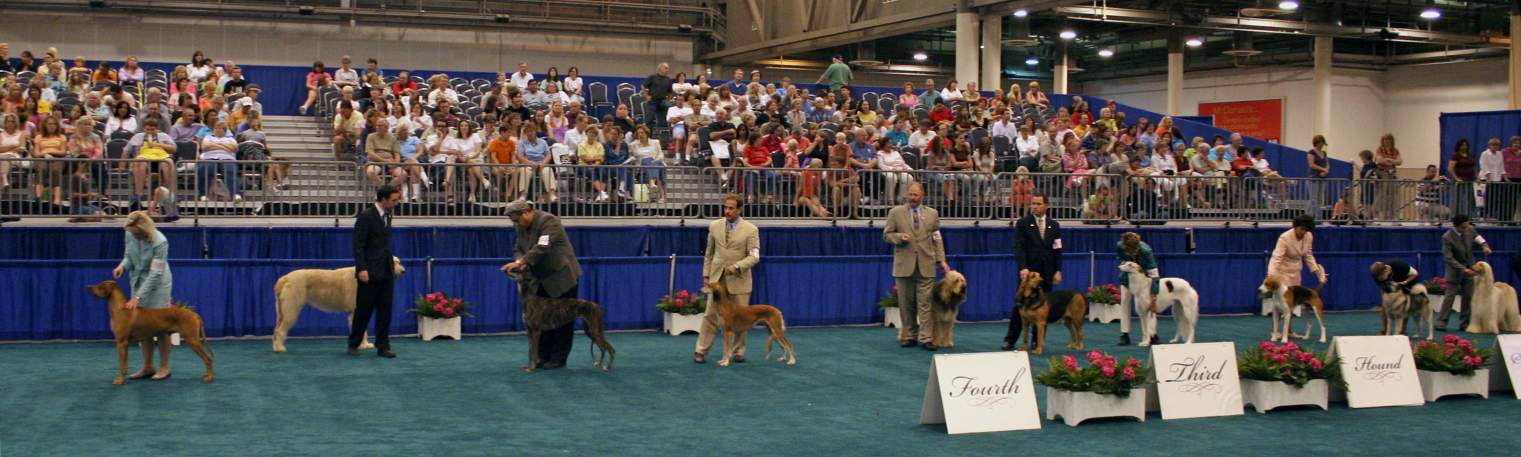 Part of the American Kennel Club hound group at a dog show. Edited by myself from the origianl version on Flickr. The breeds from left ot right are: Rhodesian Ridgeback, Irish Wolfhound, Greyhound, Saluki, Otterhound, Bloodhound, Borzoi, American Foxhound, Norwegian Elkhound and Afghan Hound.